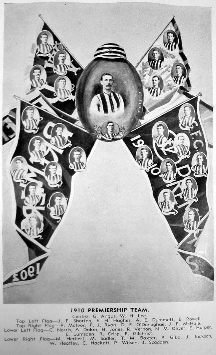 Players and flags of the Collingwood FC, premiers.